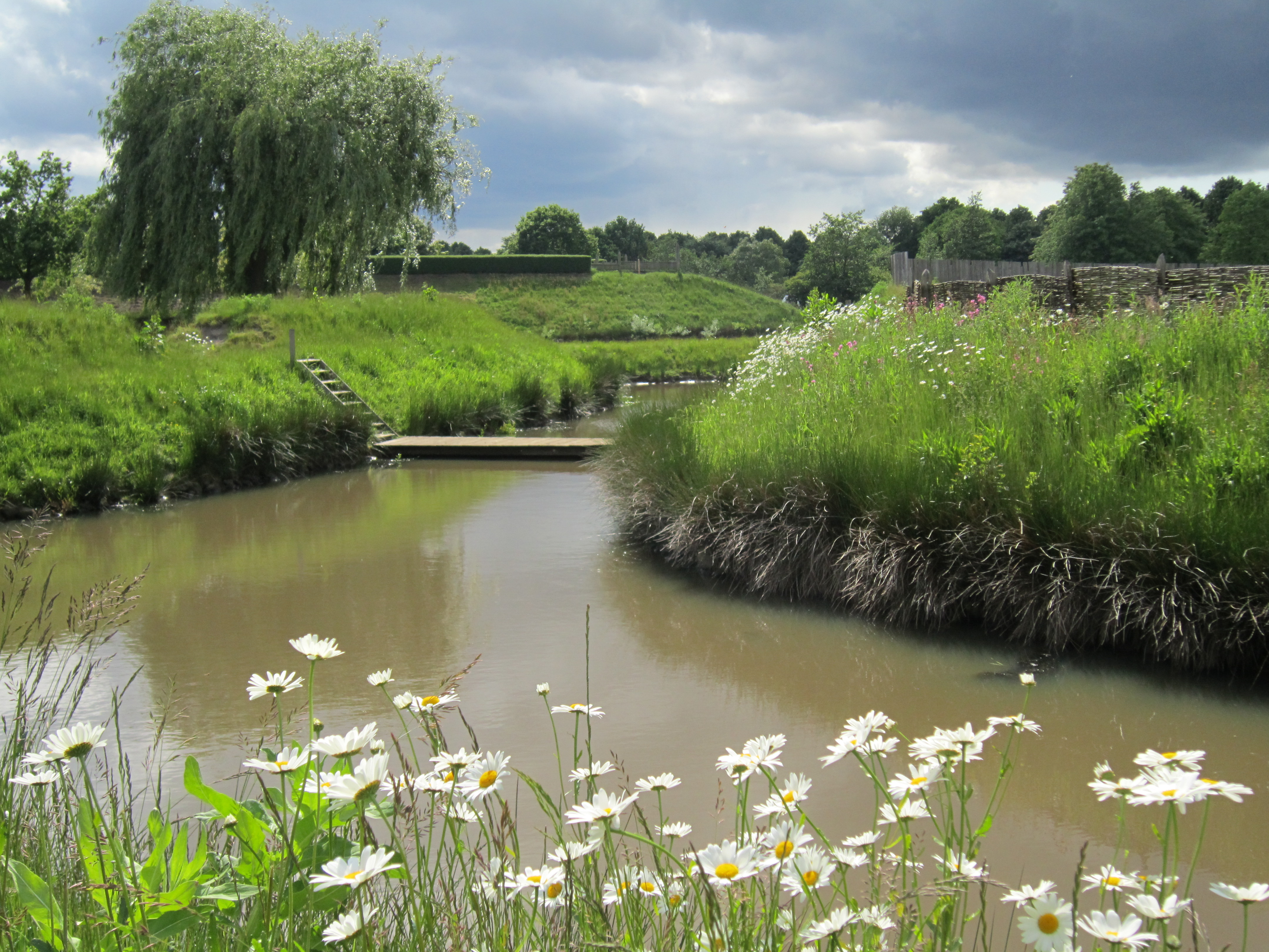 Islands of the Castrum Vechtense, embedded in the Citadel Park Vechta